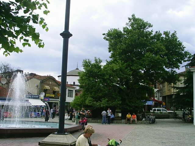 Town of Ohrid, SW corner of the Republic of Macedonia